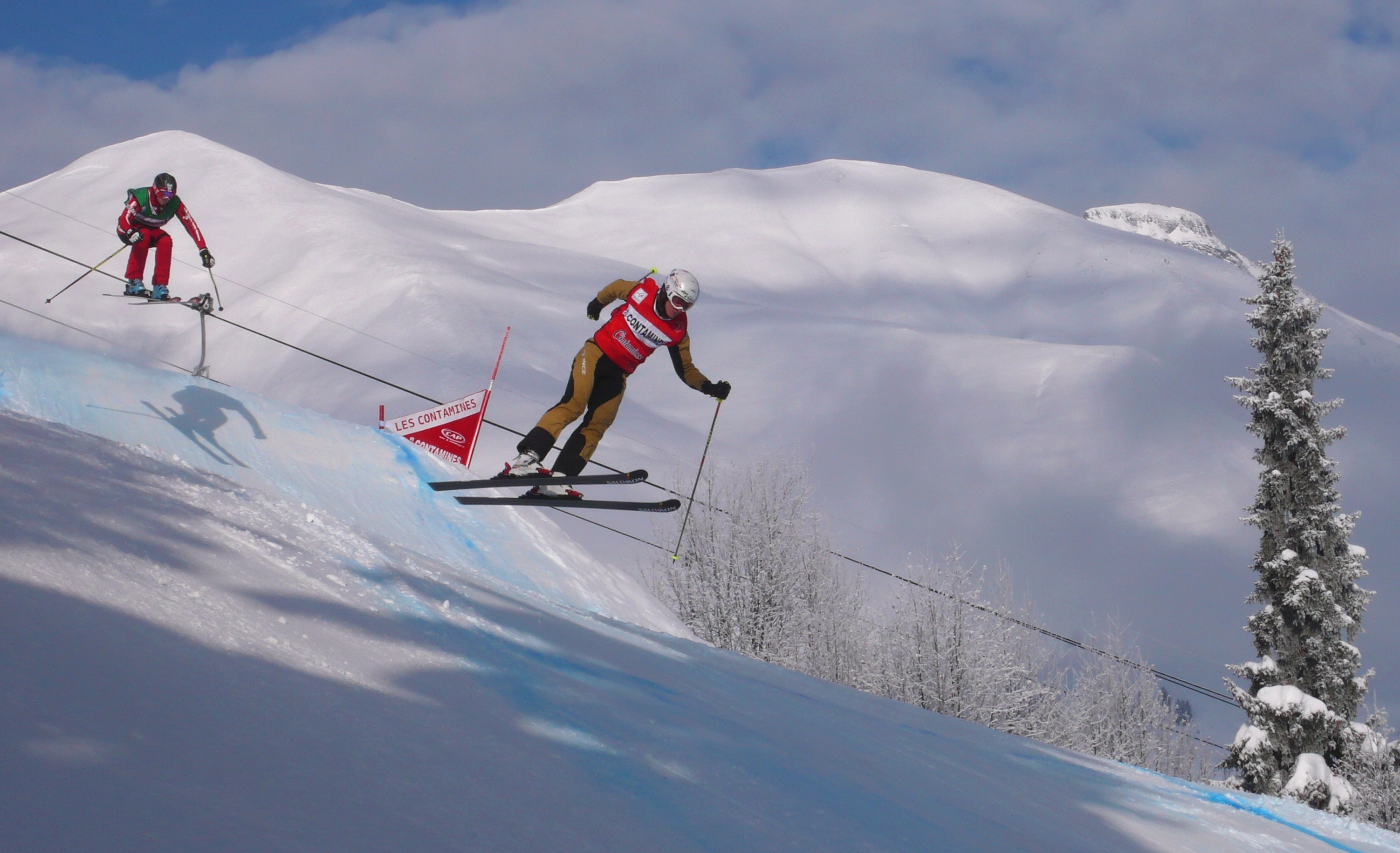 Ski Cross World Cup at Les Contamines-Montjoie, 1/4 final: Ophelie David, Ashleigh McIvor.